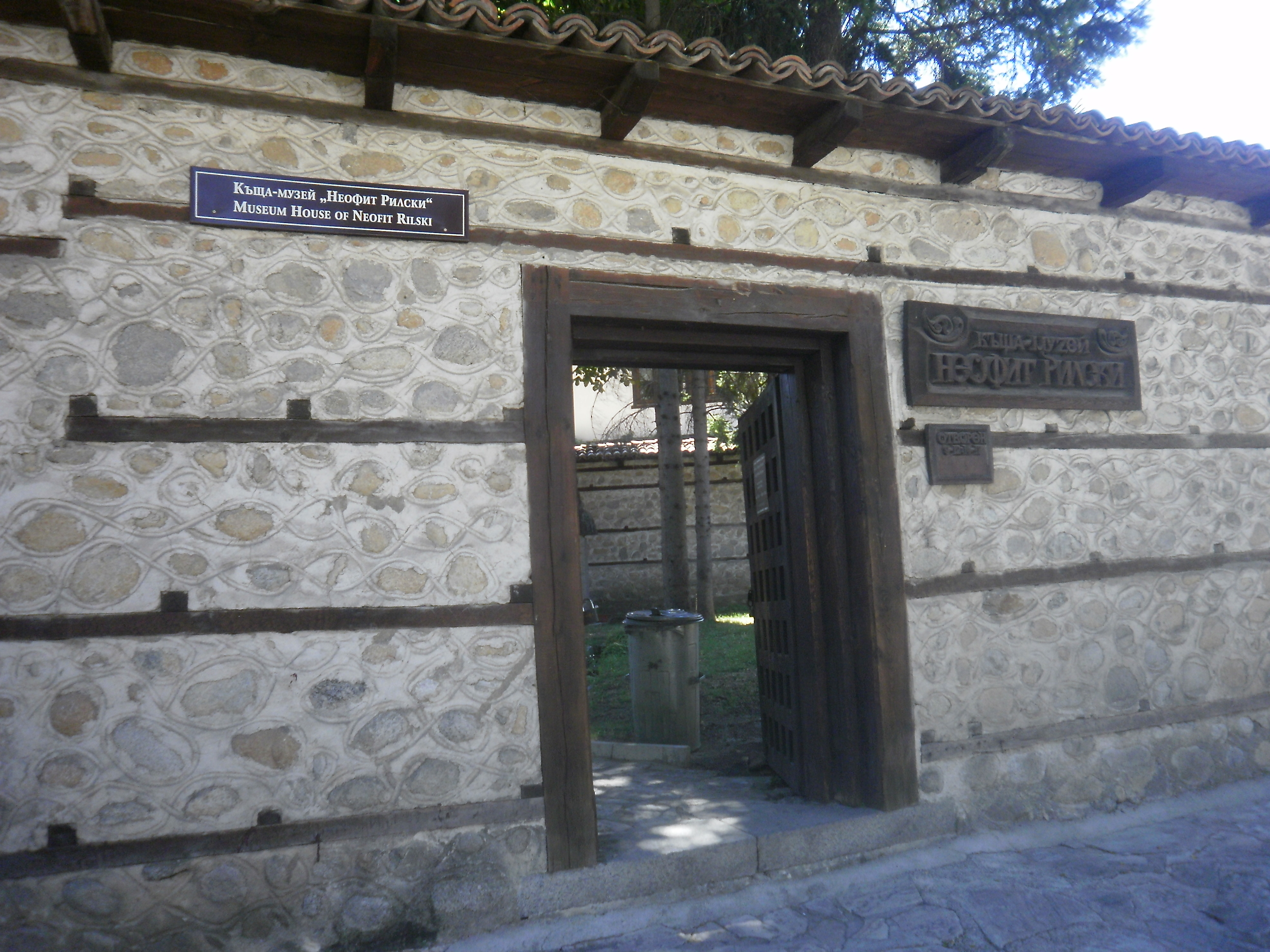 Entrance ot the Museum House of Neofit Rilski, Bansko, Bulgaria.